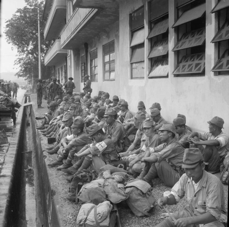 British Reoccupation of Singapore, 1945 Japanese soldiers sit by the roadside in Singapore after being rounded up by troops of the 5th Indian Division.